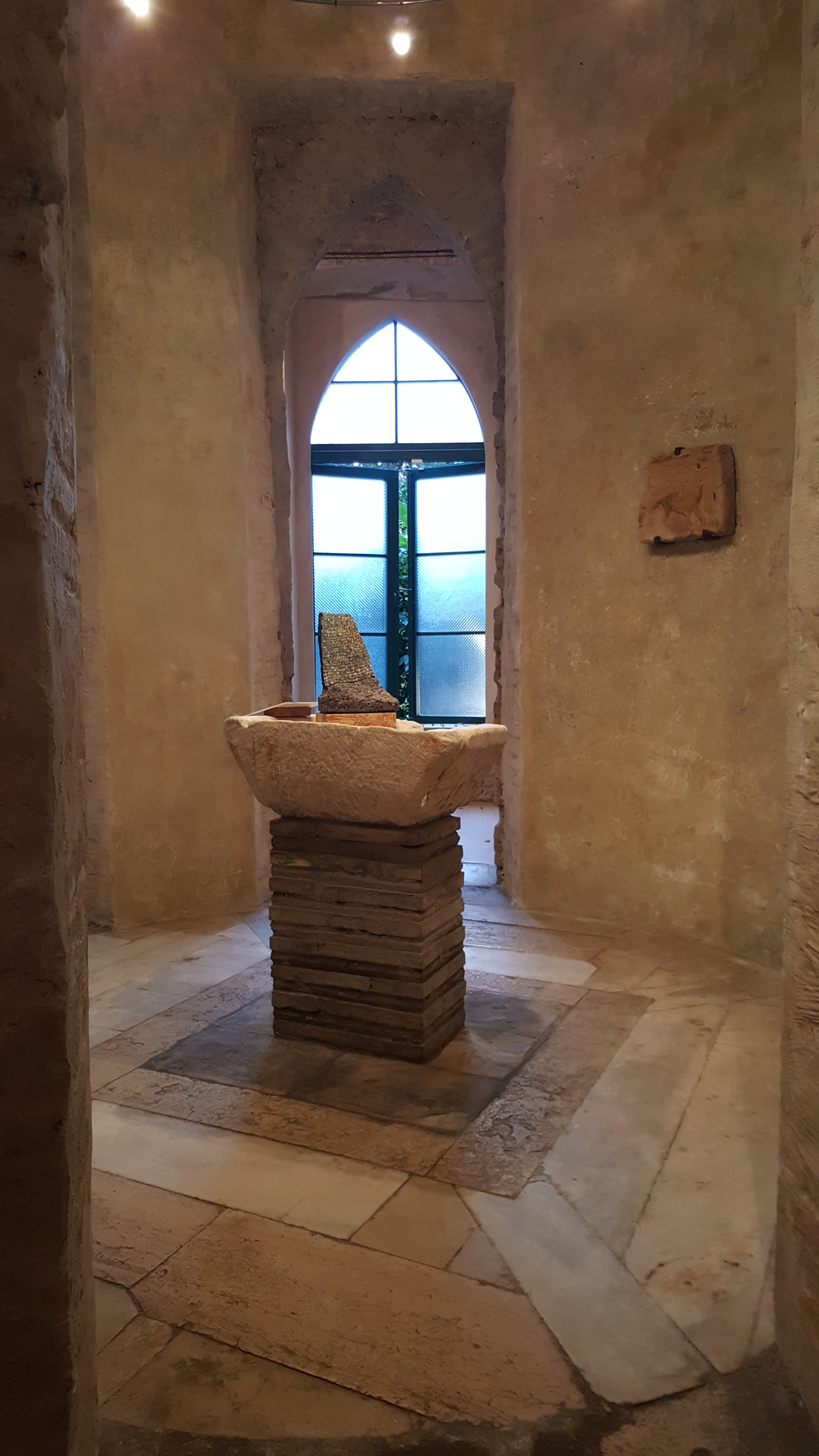 This is a photo of a monument which is part of cultural heritage of Italy.